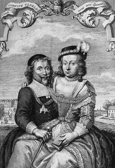 An engraving of Corfitz Ulfeldt and his wife Leonora Christina.